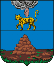 Opochka (Pskov oblast), coat of arms (1781)